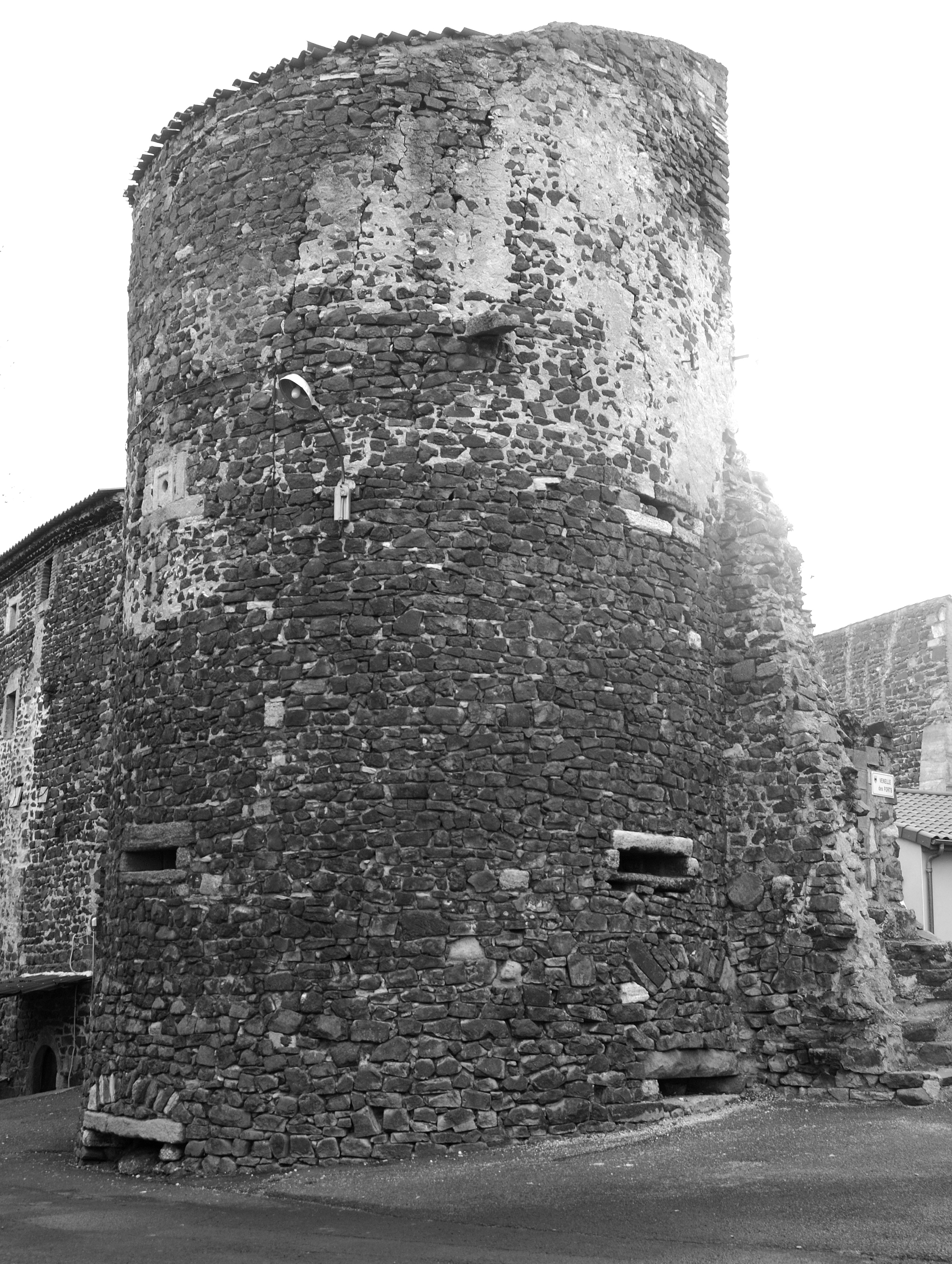 Saint-Sandoux: tower from the former defensive wall (Puy-de-Dôme, France).